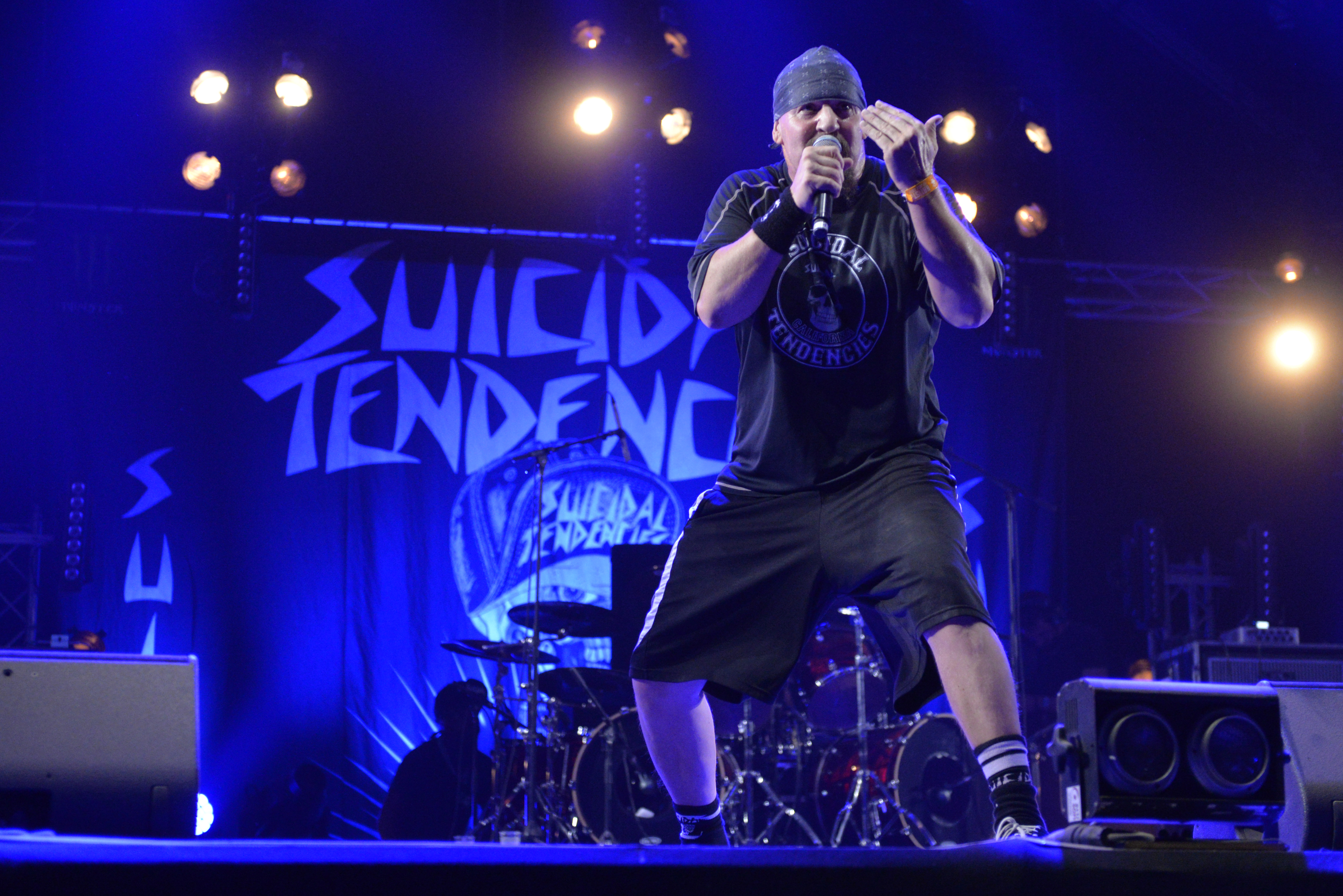 Suicidal Tendencies at Hellfest 2017, France.